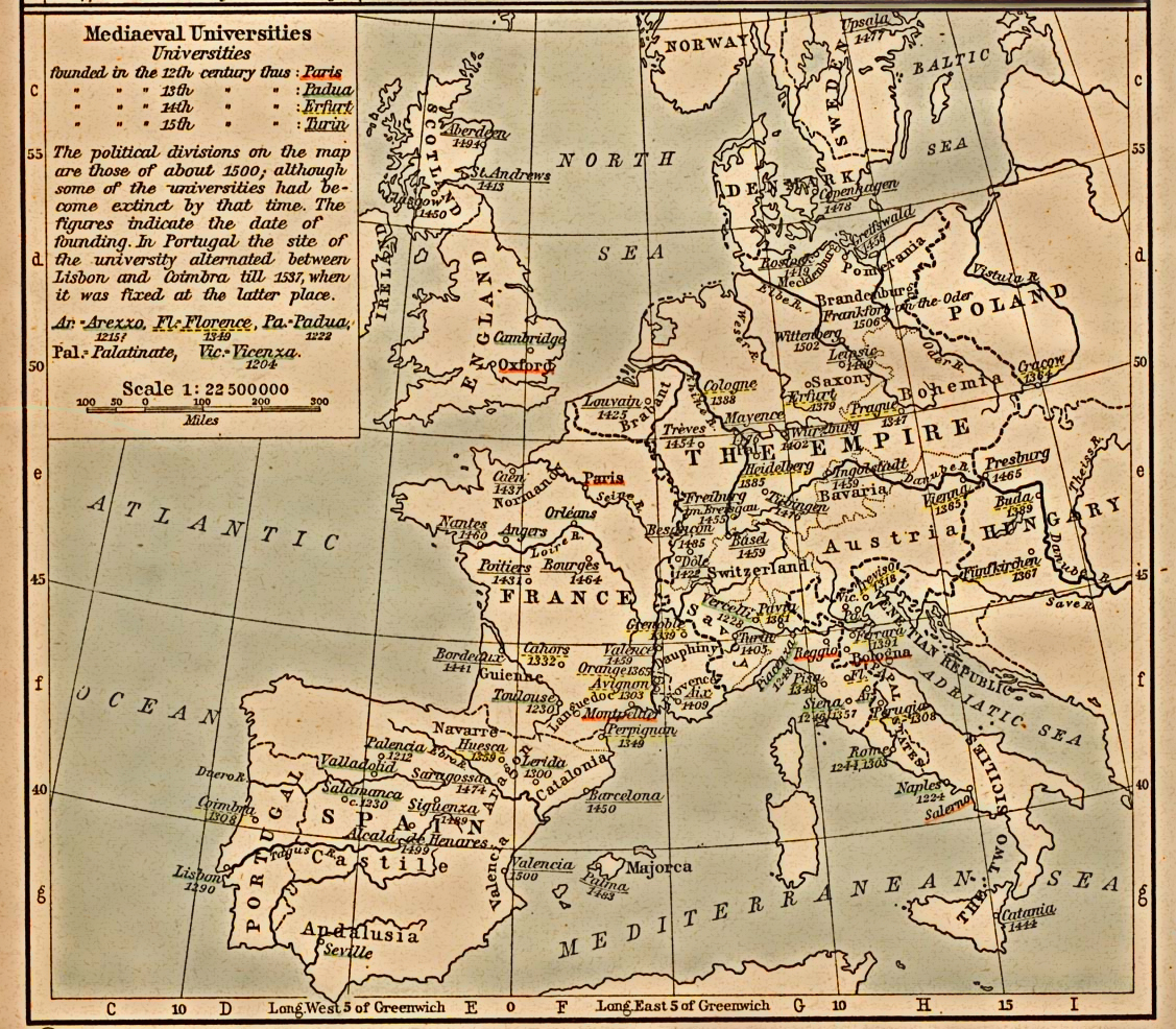 Scan from "Historical Atlas" by William R. Shepherd, New York, Henry Holt and Company, 1923.